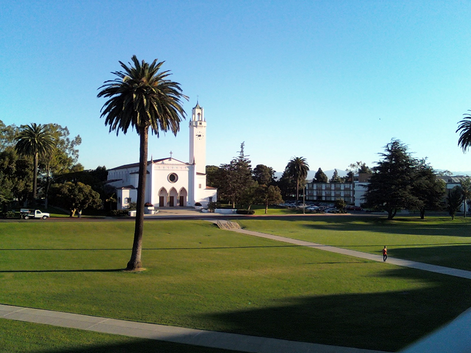 I took this photograph on a nice day at LMU.